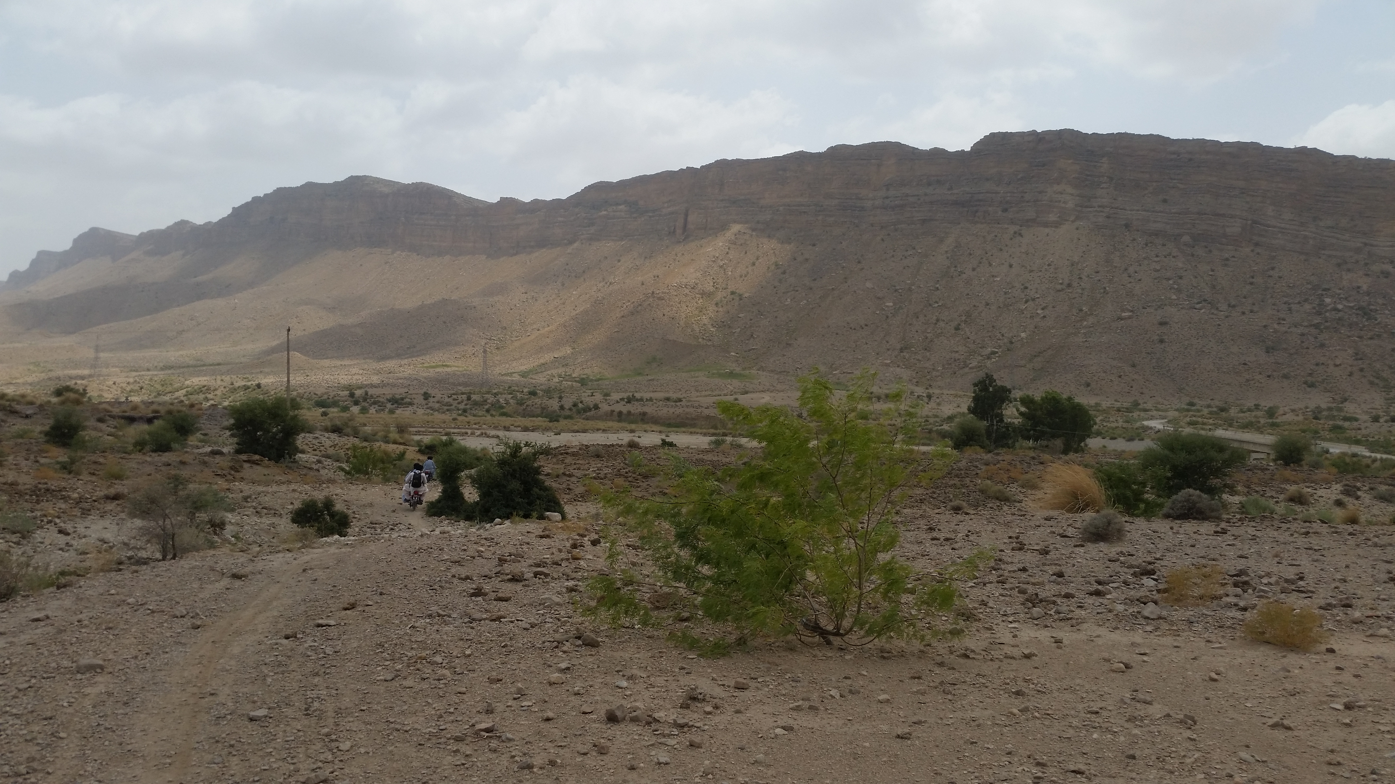 balochistan